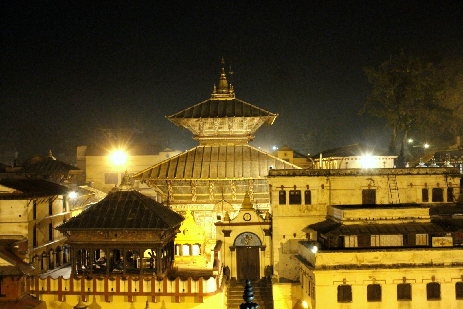 This photo was shot at almost midnight when I was there to attend the funeral of our neighbour.